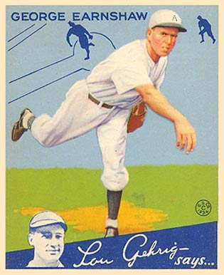 1934 Goudey baseball card of George Earnshaw of the Philadelphia Athletics #41. PD-not-renewed.